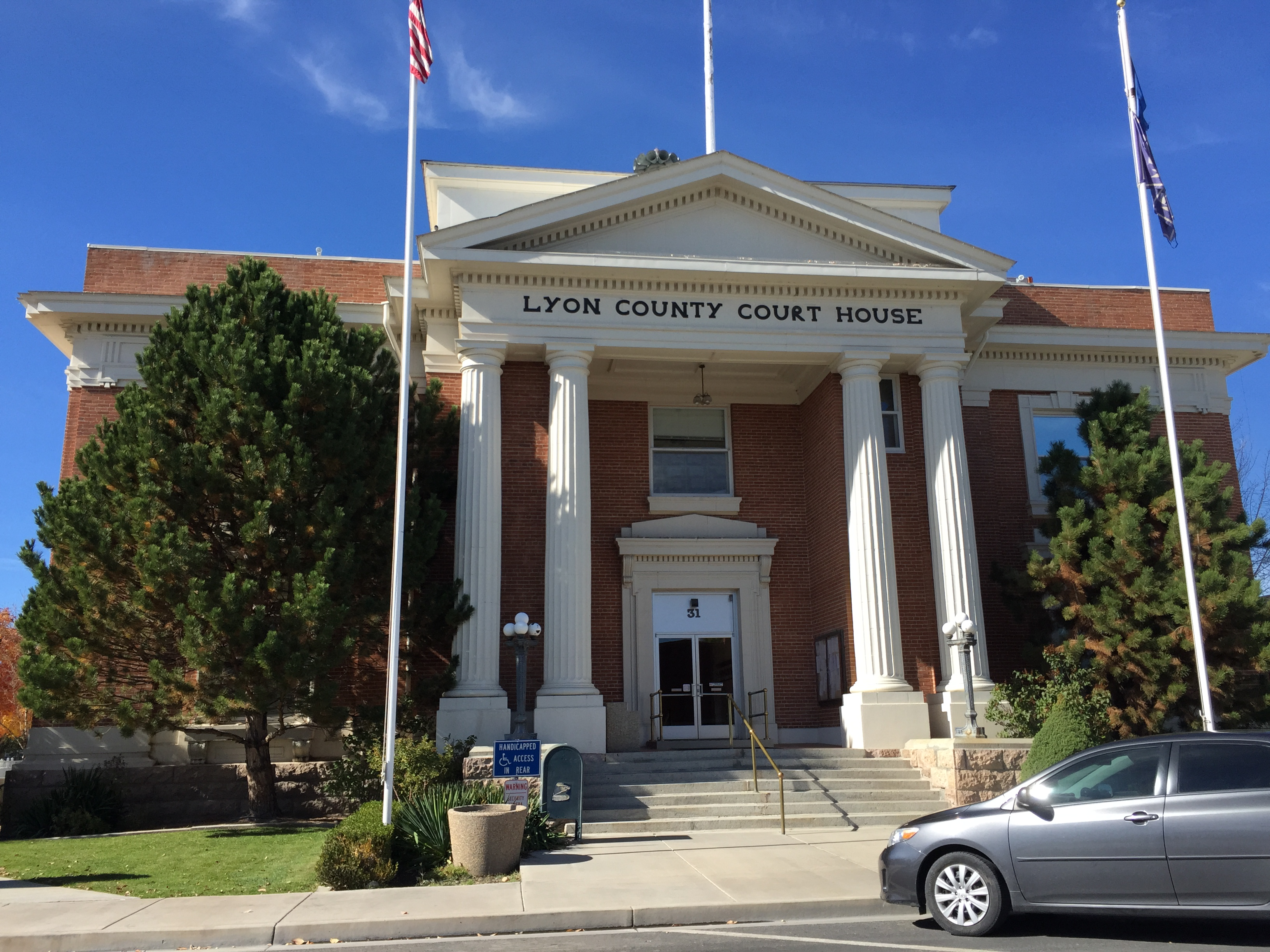 The Lyon County Court House on Main Street (Nevada State Route 208) in Yerington, Nevada